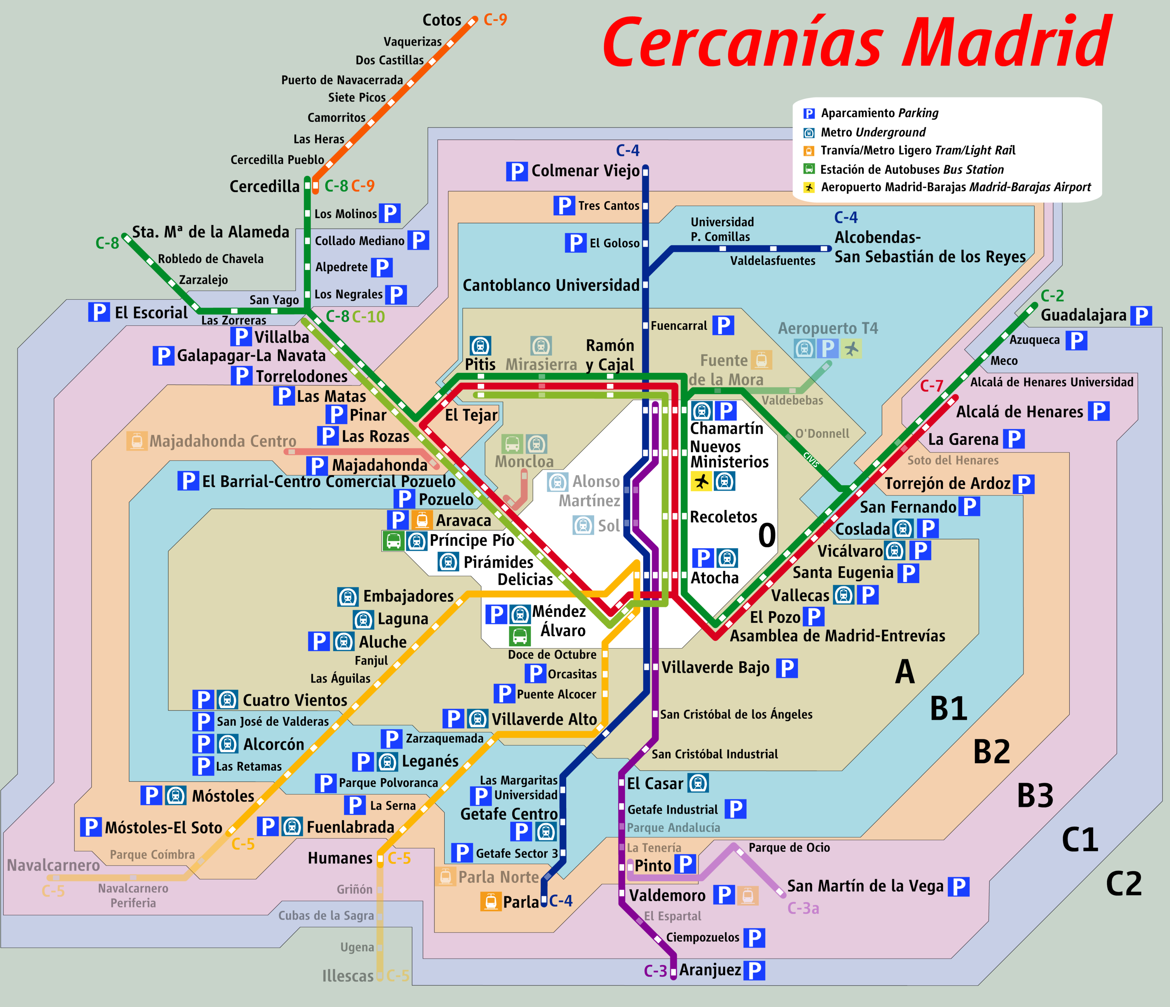 Map of Madrid suburban rail network zones (as of 2008), with future extensions